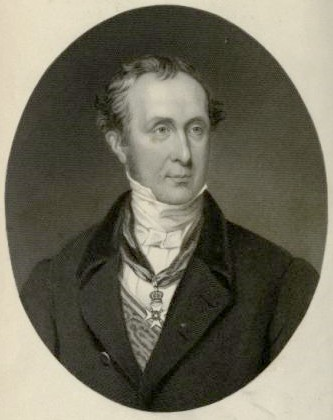 Picture of Sir Roderick Murchison, the noted Scottish geologist